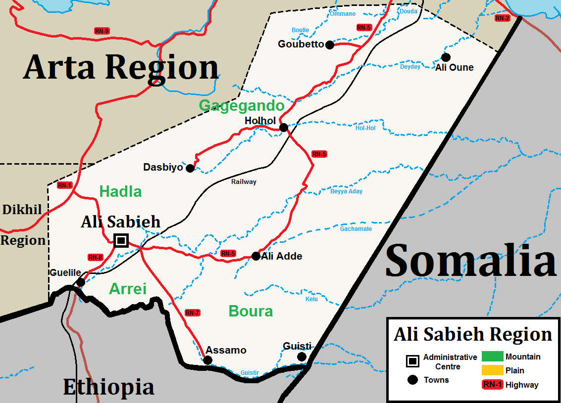 Map of the Ali Sabieh Region